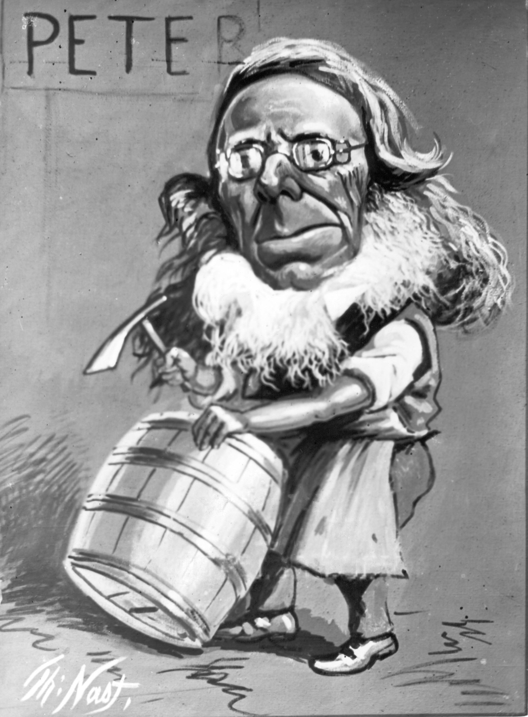 A caricature of Peter Cooper (1791-1883), inventor, industrialist, and philanthropist. Cooper led a successful fight to build a public school system in New York. His most lasting monument is Cooper Union in New York City, his attempt to offer education to the working classes. This caricature plays on Cooper's name.